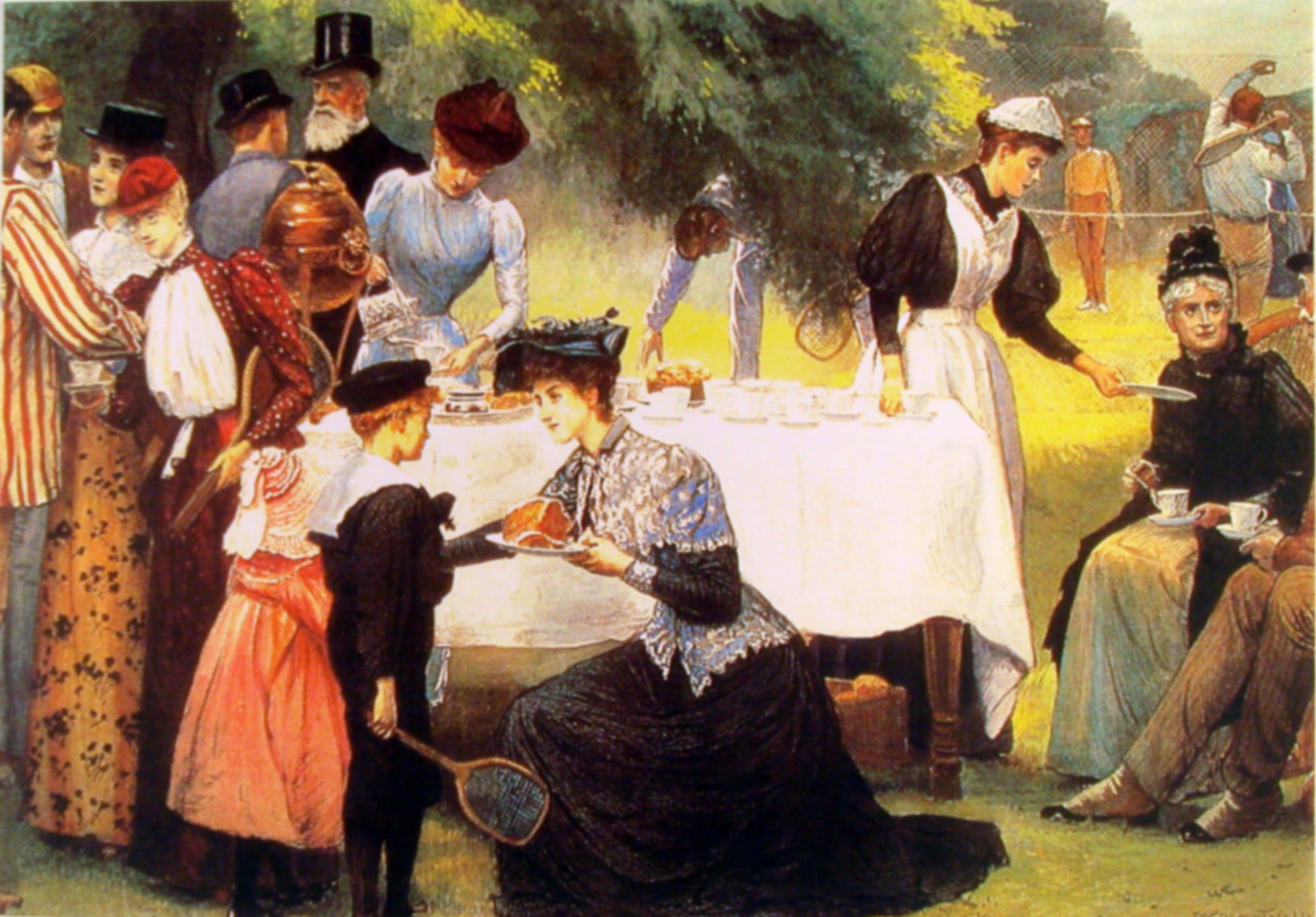 "Tea and Tennis"